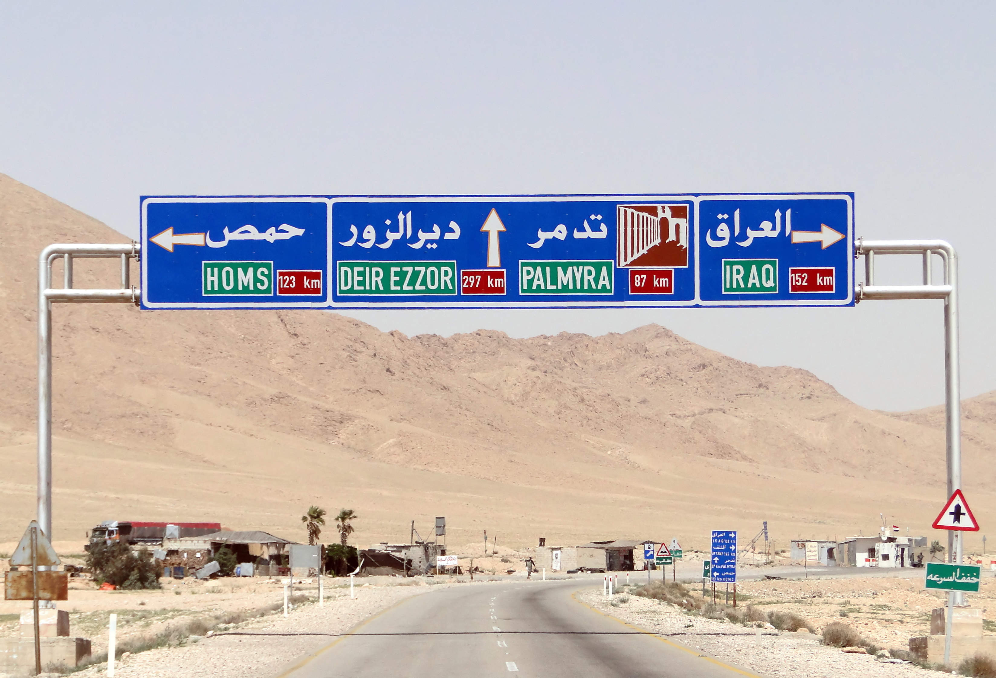 Road sign in Syria indicating directions for Homs, Palmyra and Iraq